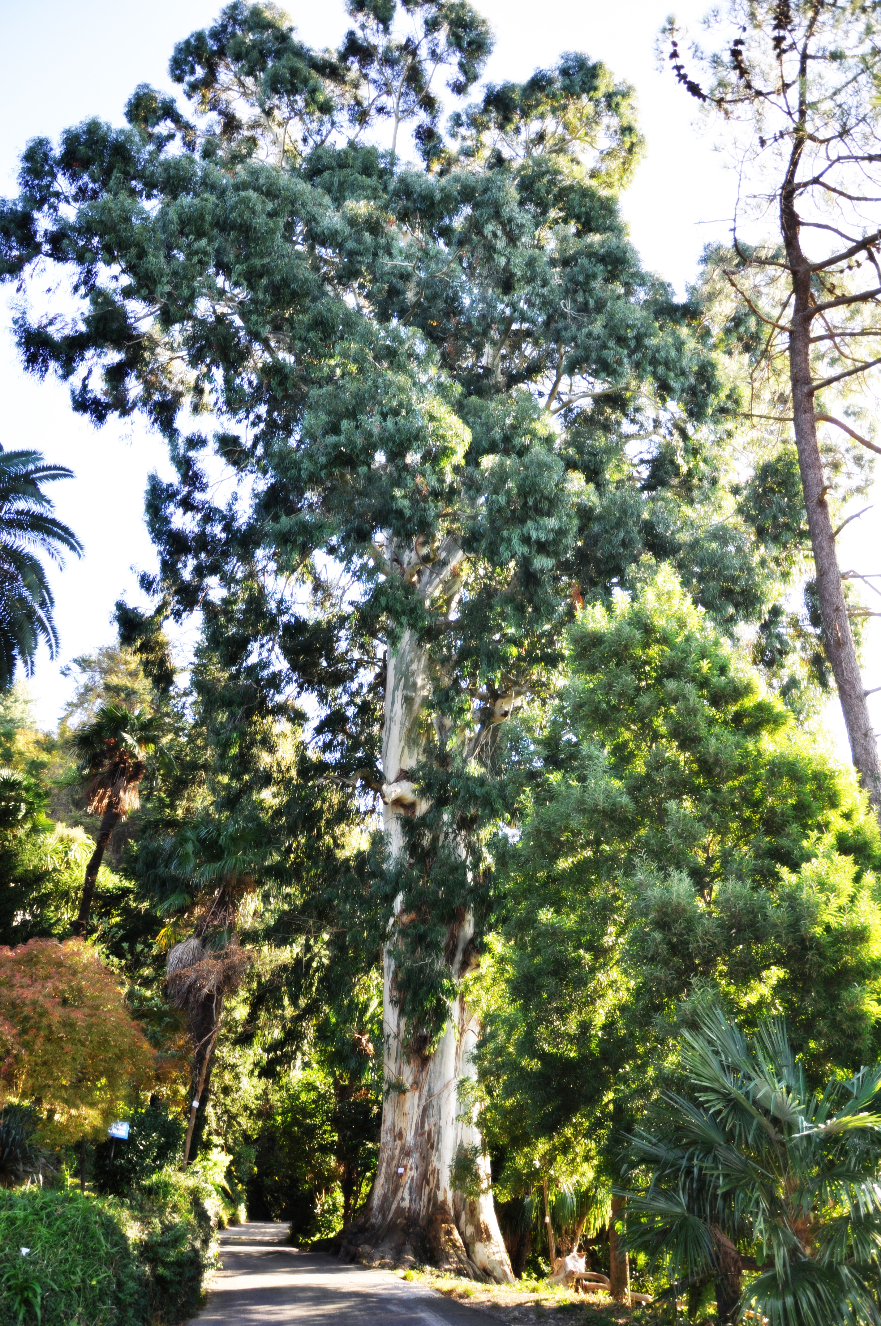 Taken in Batumi Botanical Garden